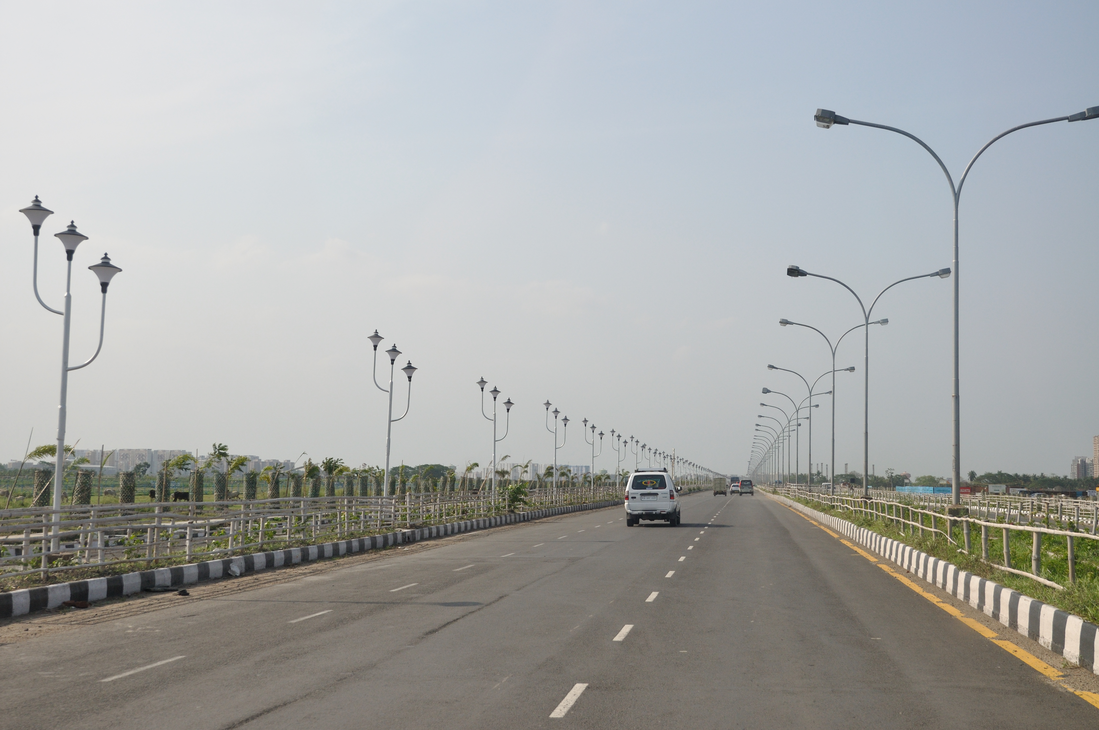 Rajarhat, Norh 24 Parganas, West Bengal.